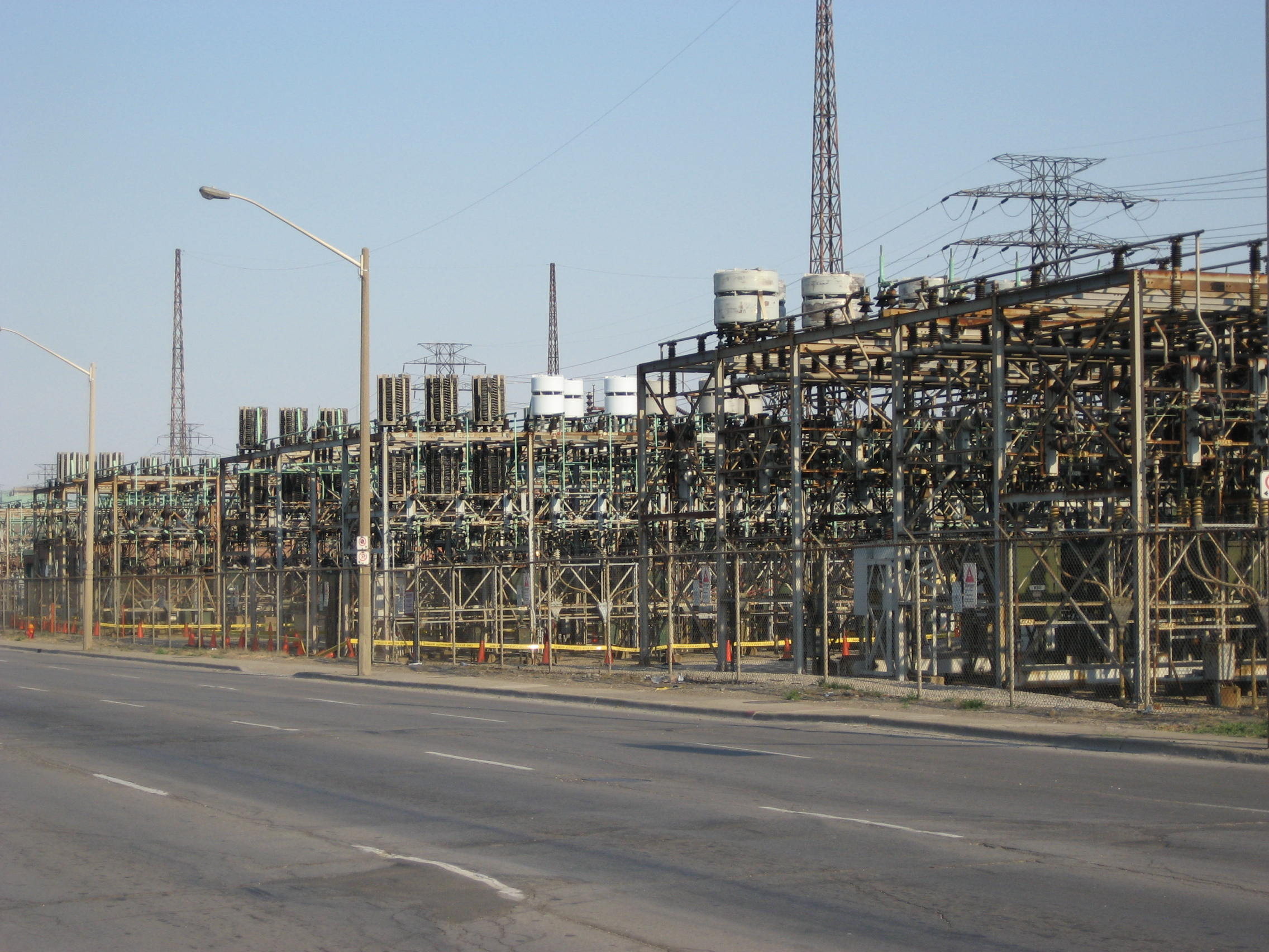 North End Industrial walking tour, Gage Avenue North, near Burlington Street, Hamilton, Ontario